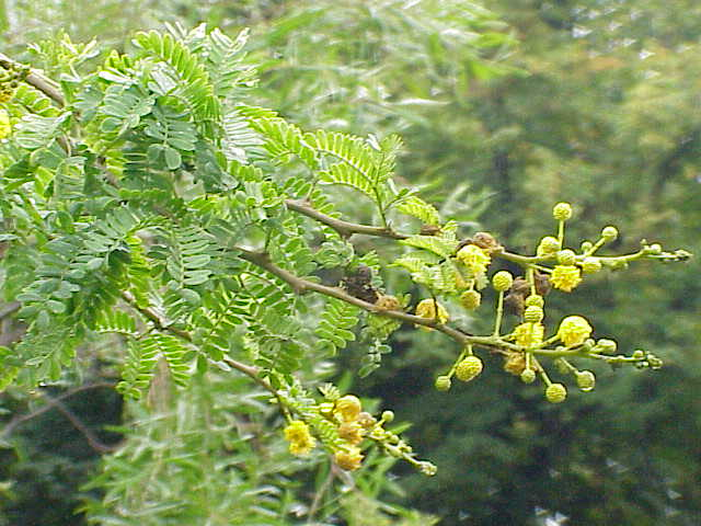 Species: Acacia karroo Family: Fabaceae Image No. 2